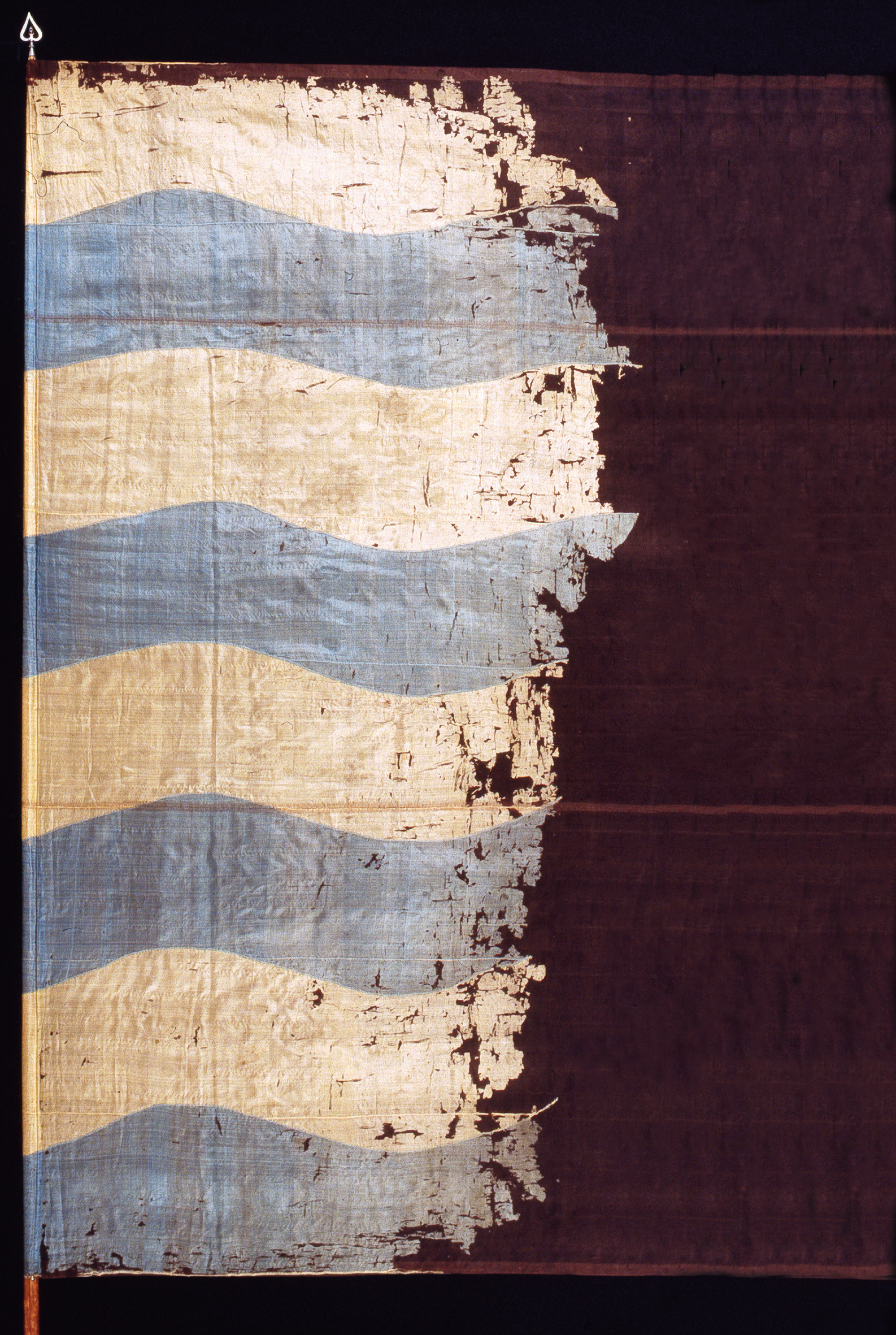 One of the oldest preserved Swedish flags, made in 1620. It was used as a banner for soldiers on board ships of the Swedish navy.